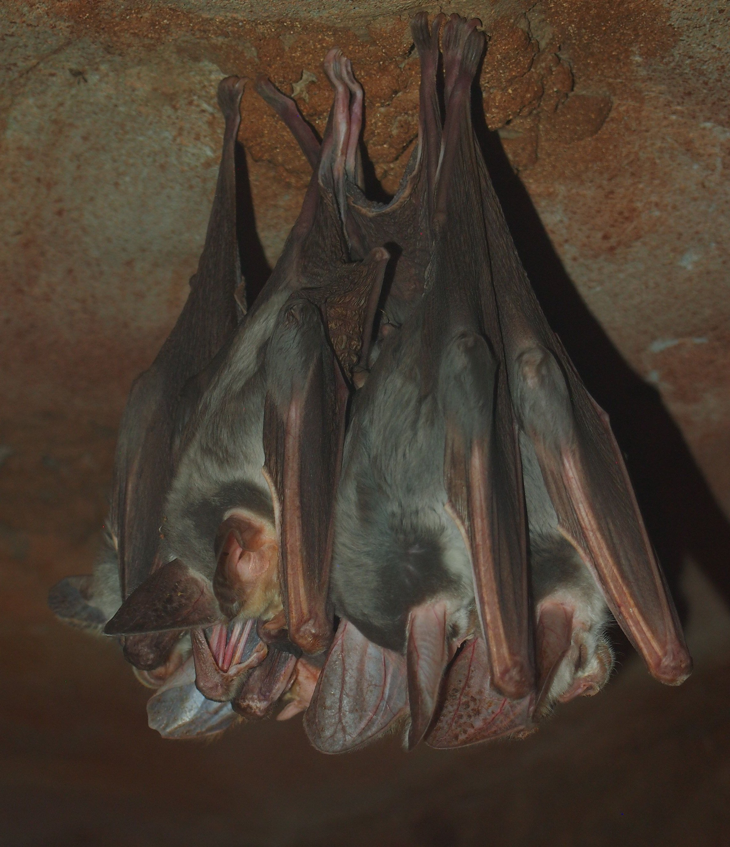 Macroderma gigas Alice Springs Desert Park, Northern Territory, Australia